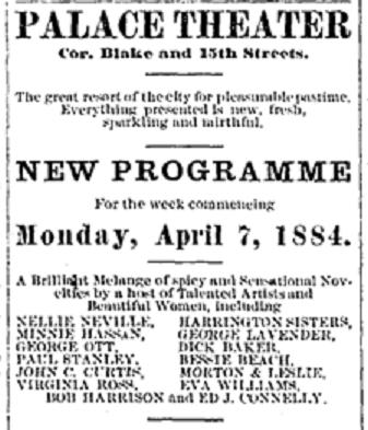 Palace Theatre 1884 bill with Paul Stanley